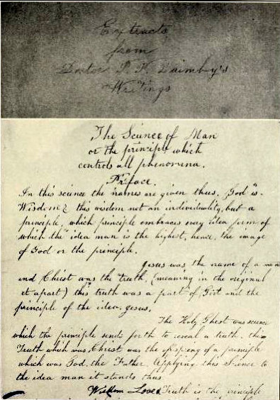 Manuscript given by Mary Baker Eddy to a student and attributed to Phineas Parkhurst Quimby (see Christian Science)